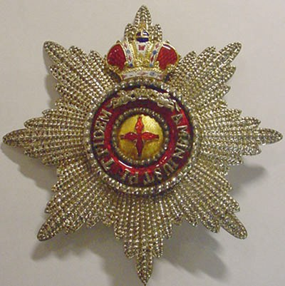 Star with crown to Order St. Anna. From private collection.